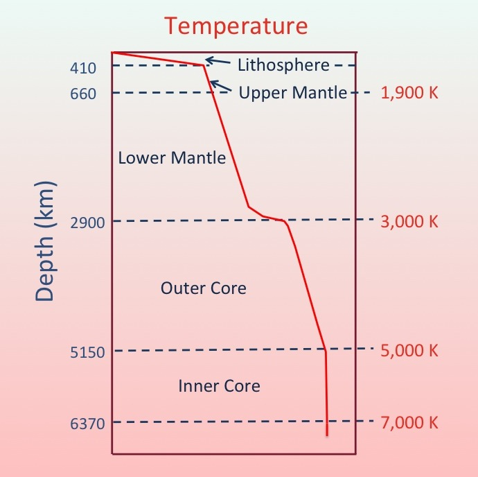 Geothermal gradient adapted from Boehler, R. (1996). Melting temperature of the Earth's mantle and core: Earth's thermal structure. Annual Review of Earth and Planetary Sciences, 24(1), 15–40.